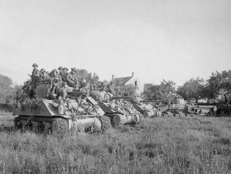 IWM caption : THE BRITISH ARMY IN THE NORMANDY CAMPAIGN 1944. Sherman tanks carrying infantry wait for the order to advance at the start of Operation 'Goodwood'.